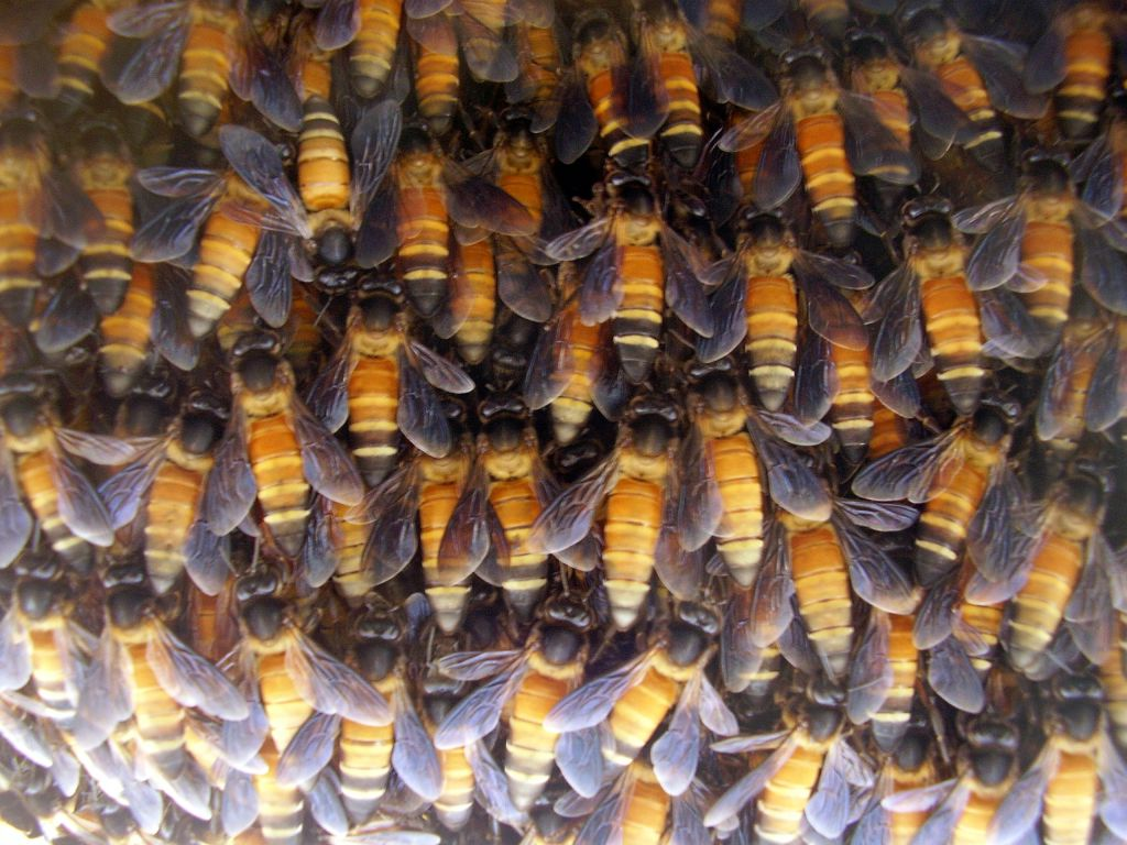 A hive of Apis dorsata (giant honey bees) I photographed whilst in Mt Abu, India. This hive was situated right next to a glass window of a building enabling me to get close enough.